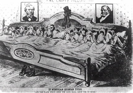 Brigham Young's 12 widows lament. Caricature in a newspaper about Mormon polygamy. Text:"In memoriam Brigham Young. And the place which knew him once shall know him no more" It references the apocryphal "long bed" story (and illustration) found in chapter 15 of Mark Twain's 1872 book Roughing It.